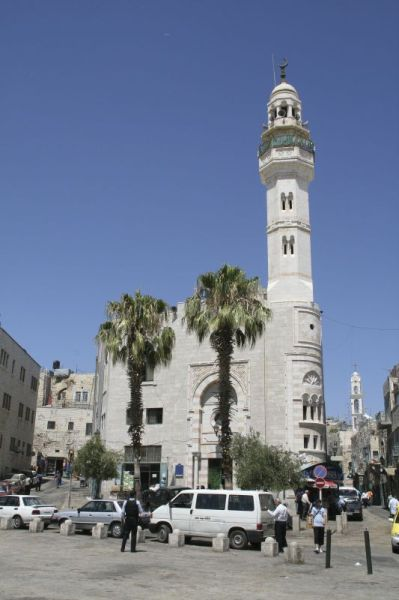 For more pictures and videos of Israel, please visit here. Manger Square